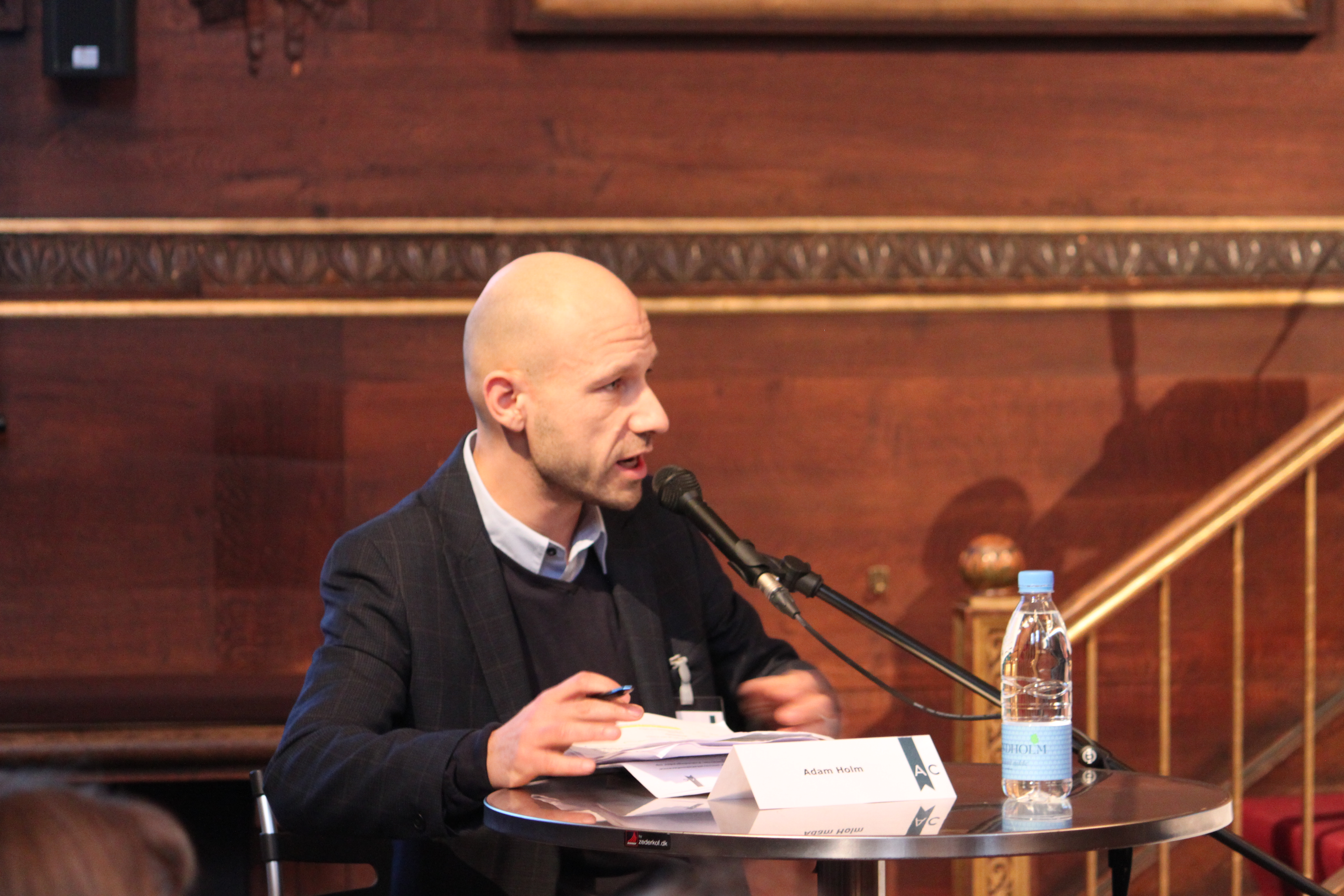 Adam Holm at the University Conference, organized by AC on January 16th 2012 @ Københavns Universitets festsal